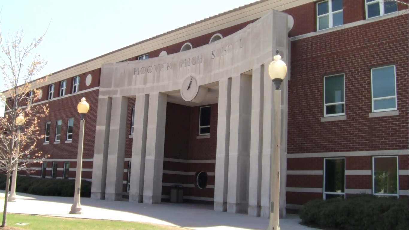 Hoover High School in Hoover, Alabama